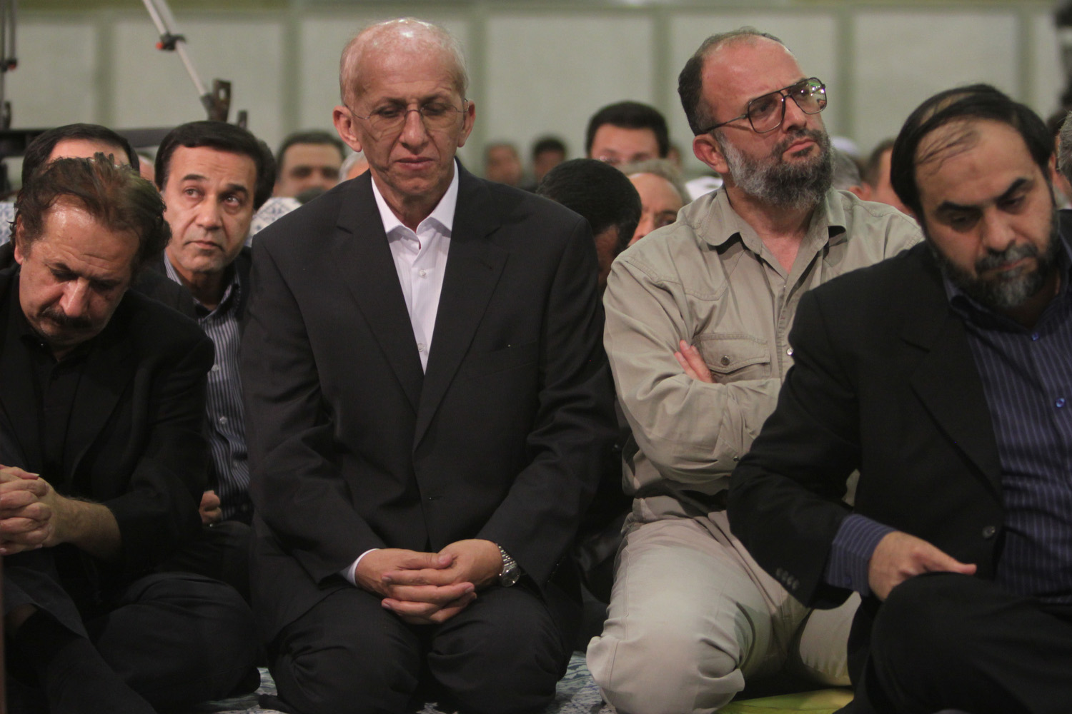 Activists of the Holy Defense Art meeting with Ali Khamenei From right to left : Hassan Rahmipour Azghadi, Saeed Ghasemi , Bijan Nobaveh-Vatan, Majid Majidi